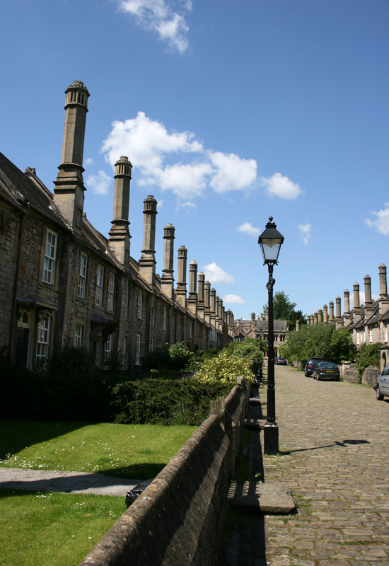 Vicar's Close, Wells Cathedral